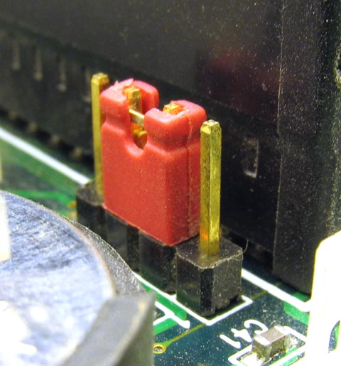 A Jumper